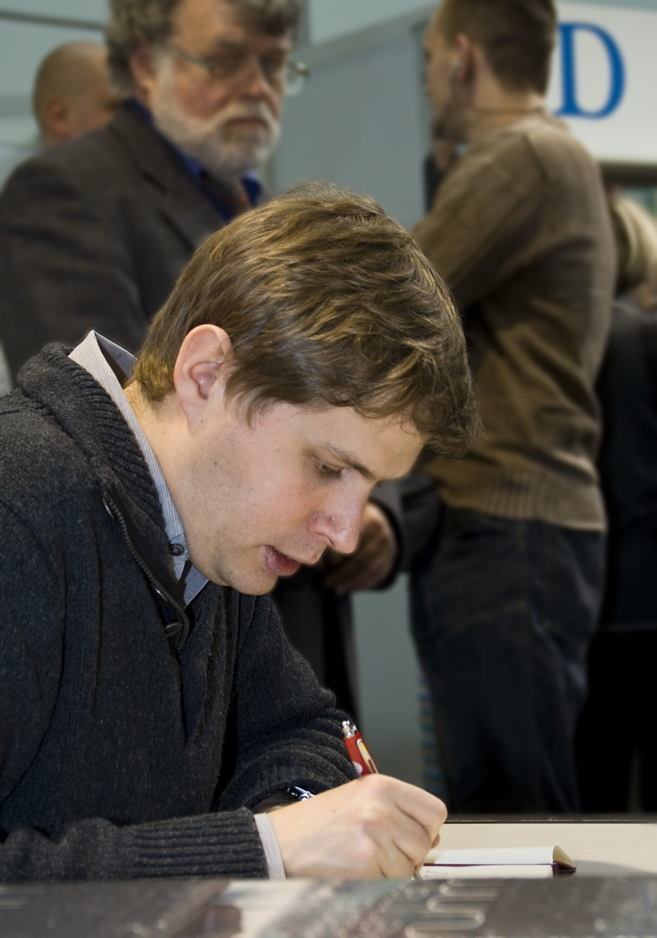 Daniel Kehlmann at the Leipzig Book Fair.